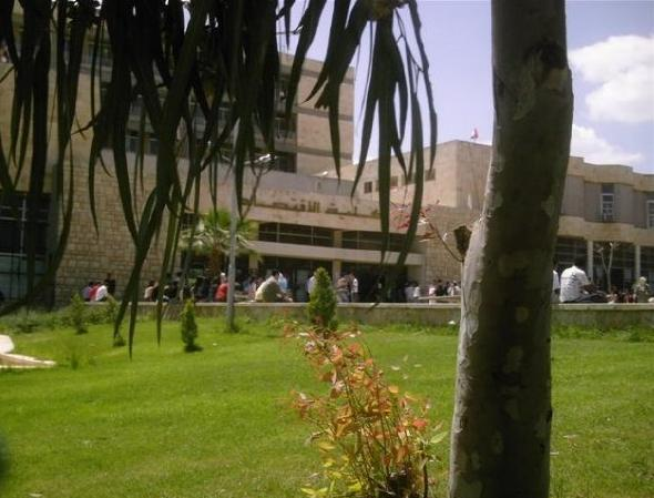 Faculty Of economics - university of Alep , Syria